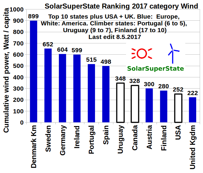 SolarSuperState Ranking 2017 category Wind top ten US UK